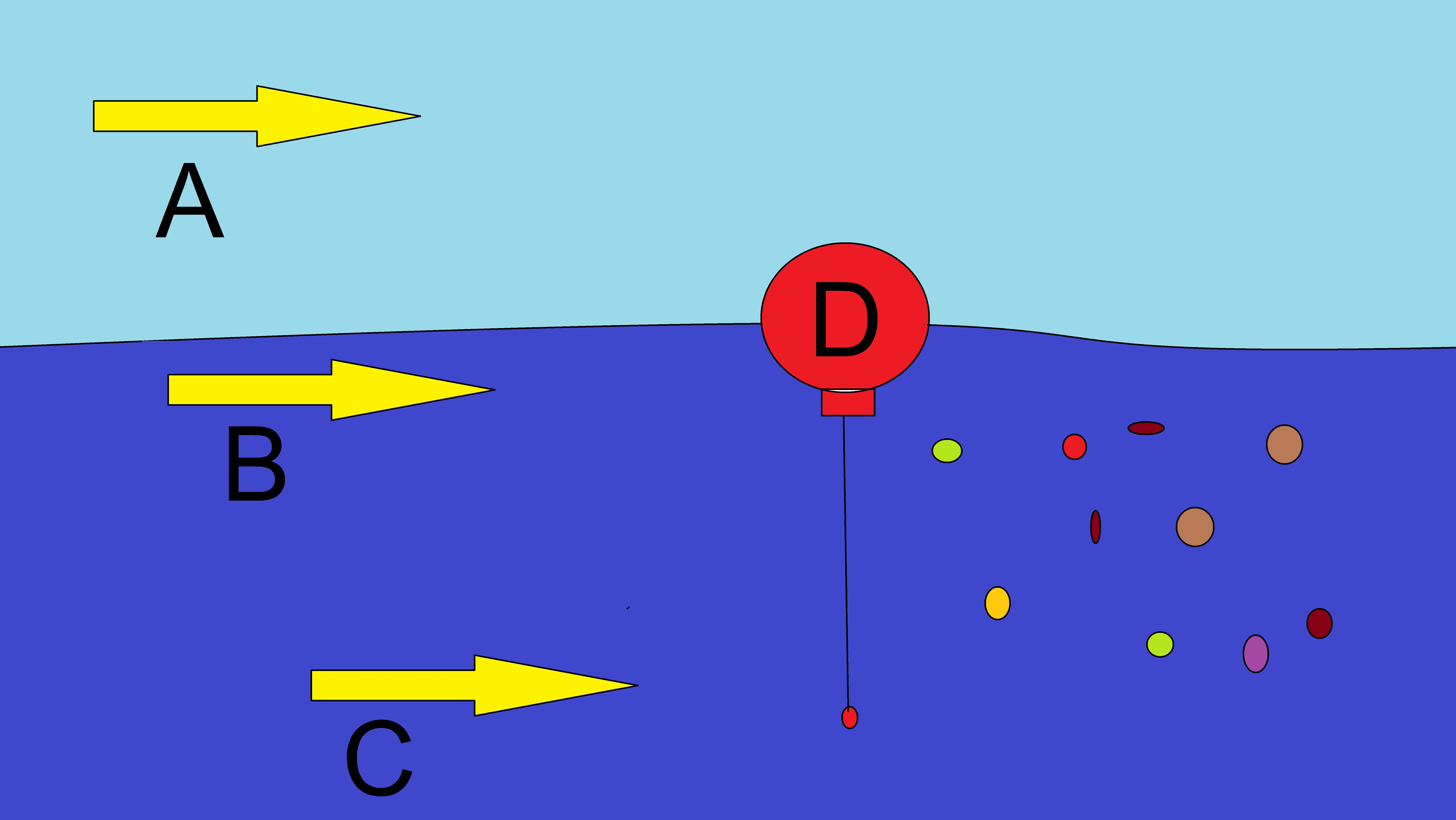 The Ocean Cleanup diagram. A: Wind B: Waves C: Current D: Side view of floating barrier